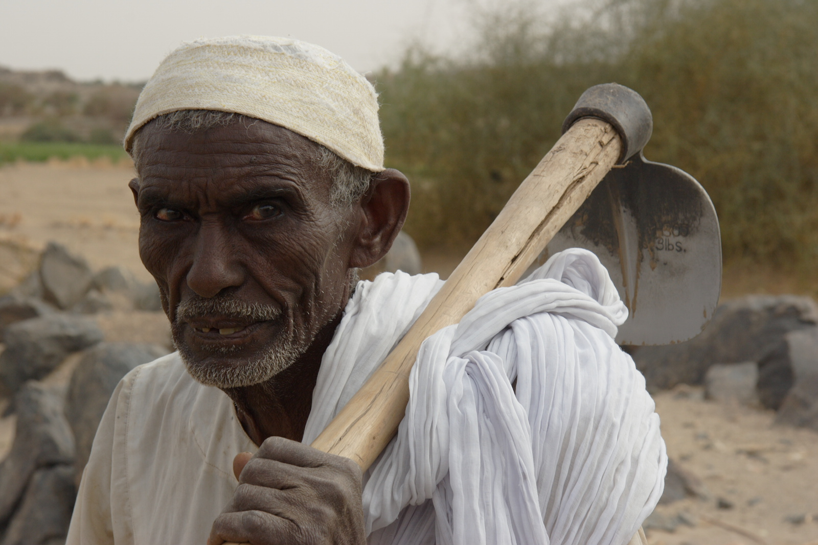 The Manasir farmer Al-Tahir 'Uthman al-Tahir from Musari' on Sur Island with a Turiah over his shoulder (Dar al-Manasir, Northern Sudan)